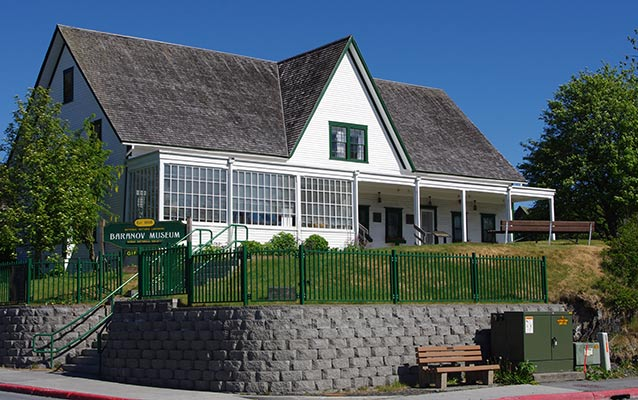 Situated in Old Kodiak, this is the only surviving structure known to have been associated with both the Russian American Company (1799) and the Alaska Commericial Company (1868), trading companies that were controlling factors in the Russian and early American administration of Alaska.